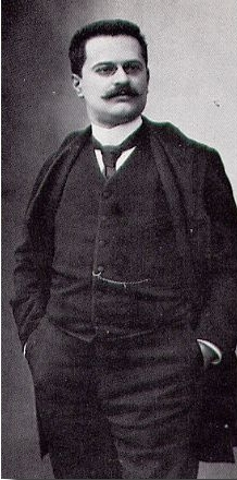 French journalist Gaston Calmette (1858-1914)